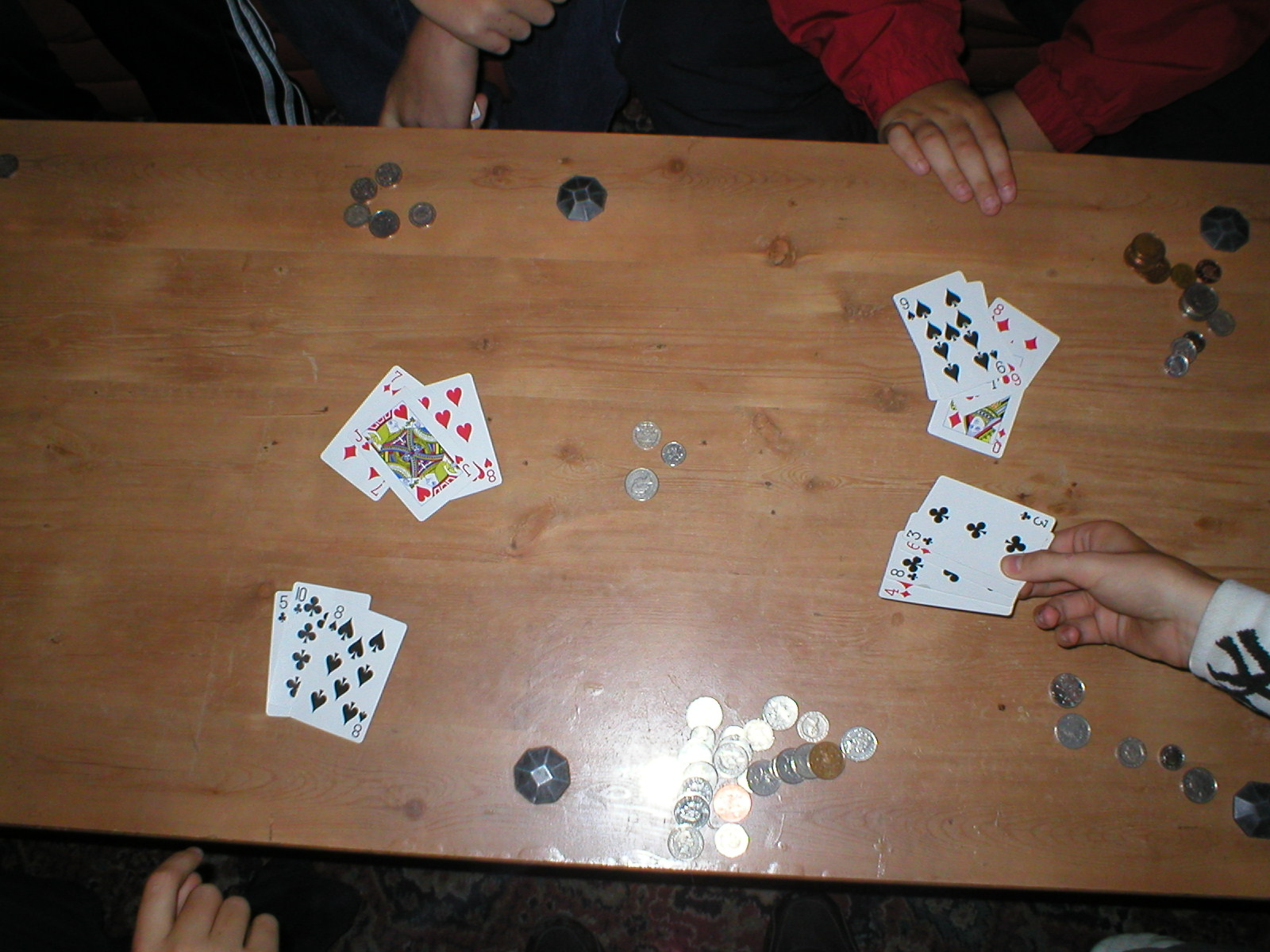 A table during a casual game of cards, from a bird's eye view. Table includes cards and money.